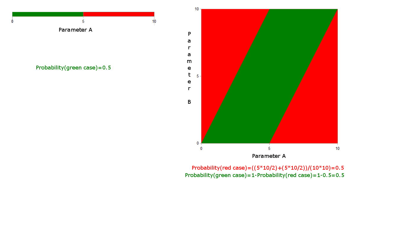 Diagrams illustrate weakness of hypothesis that changing more than one parameter can totally solve fine-tuning of our universe. The left panel shows probability of „green case“ = 0.5 (it's only eample) and we have only one parameter – A. The right panel shows situation after adding parameter B – probability of „green case“ is still 0.5 . Parameter B improves chance for „green case“ (it has many values which compense higher values of parameter A) but on the other side it also contains many values distorting „green case“! For example lower velocity of expansion of universe could be balanced by lower gravitation (for creation of structured matter) but this value of gravitation is not good for „our“ velocity of universe expansion – probability is still equal and „fine-tuned universe“ problem is not solved.1 Created according to Luke A. Barnes. The Fine-Tuning of the Universe for Intelligent Life. 2011.